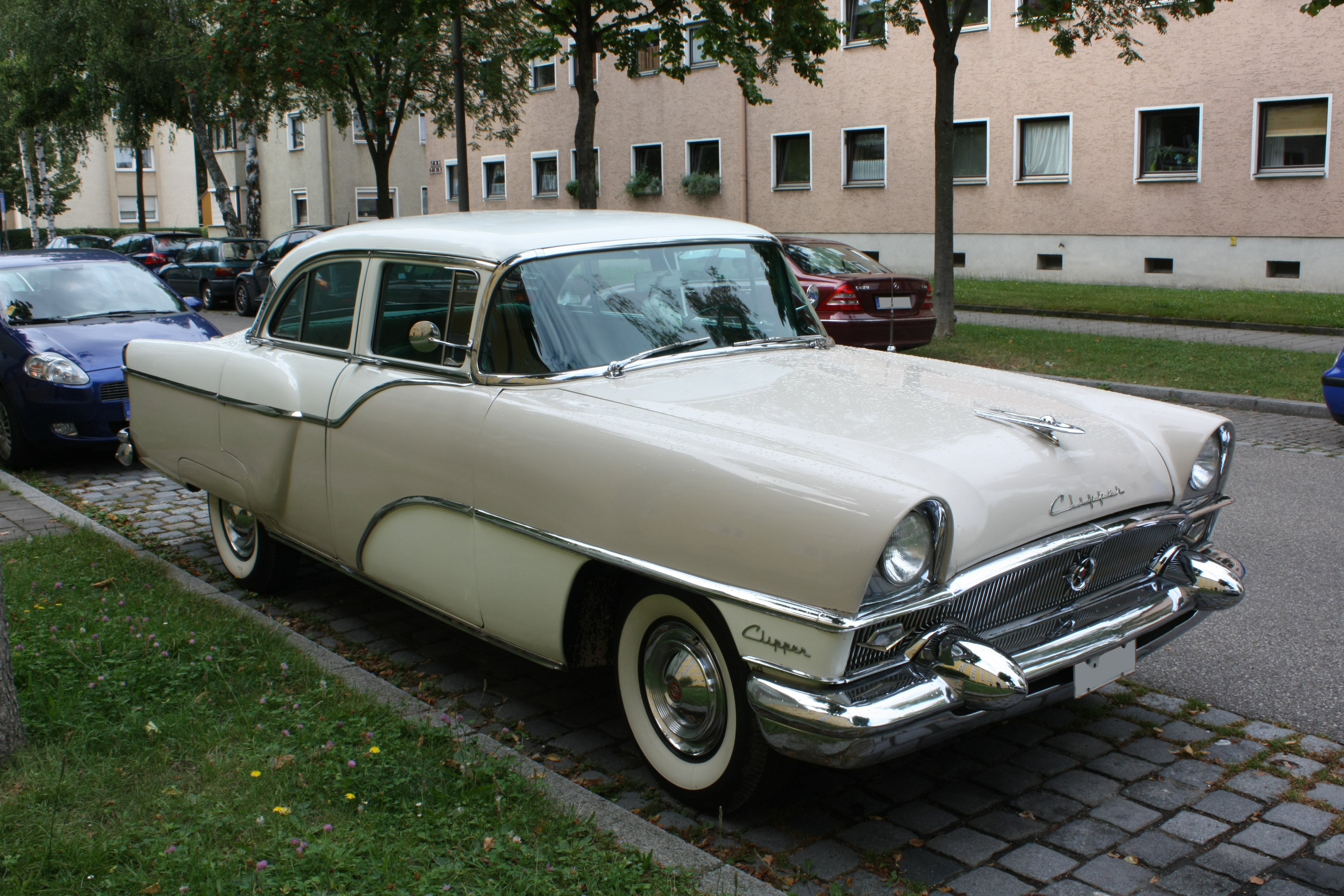 1955 Packard Clipper Super